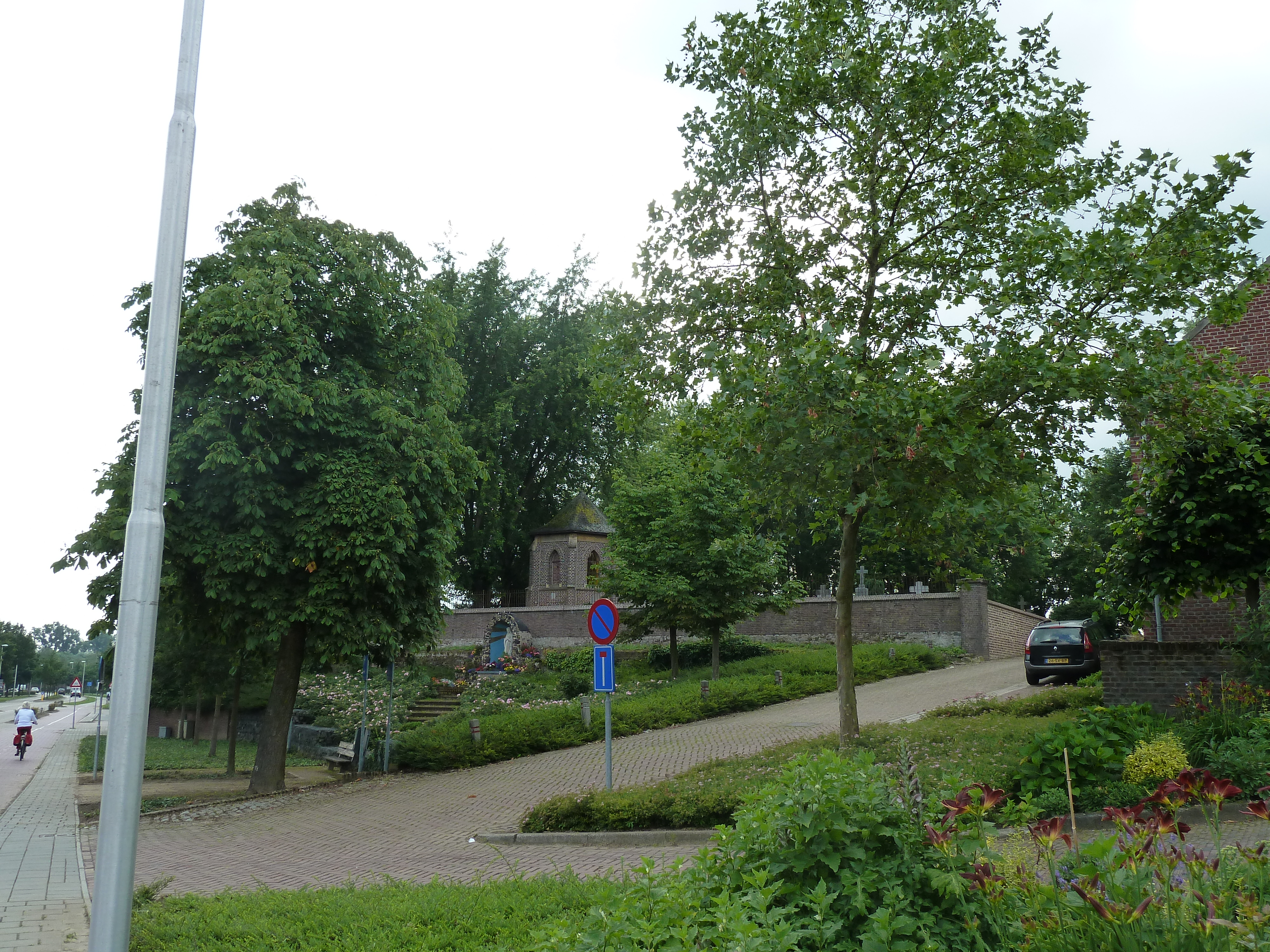 Church hill, Melick, Limburg, the Netherlands